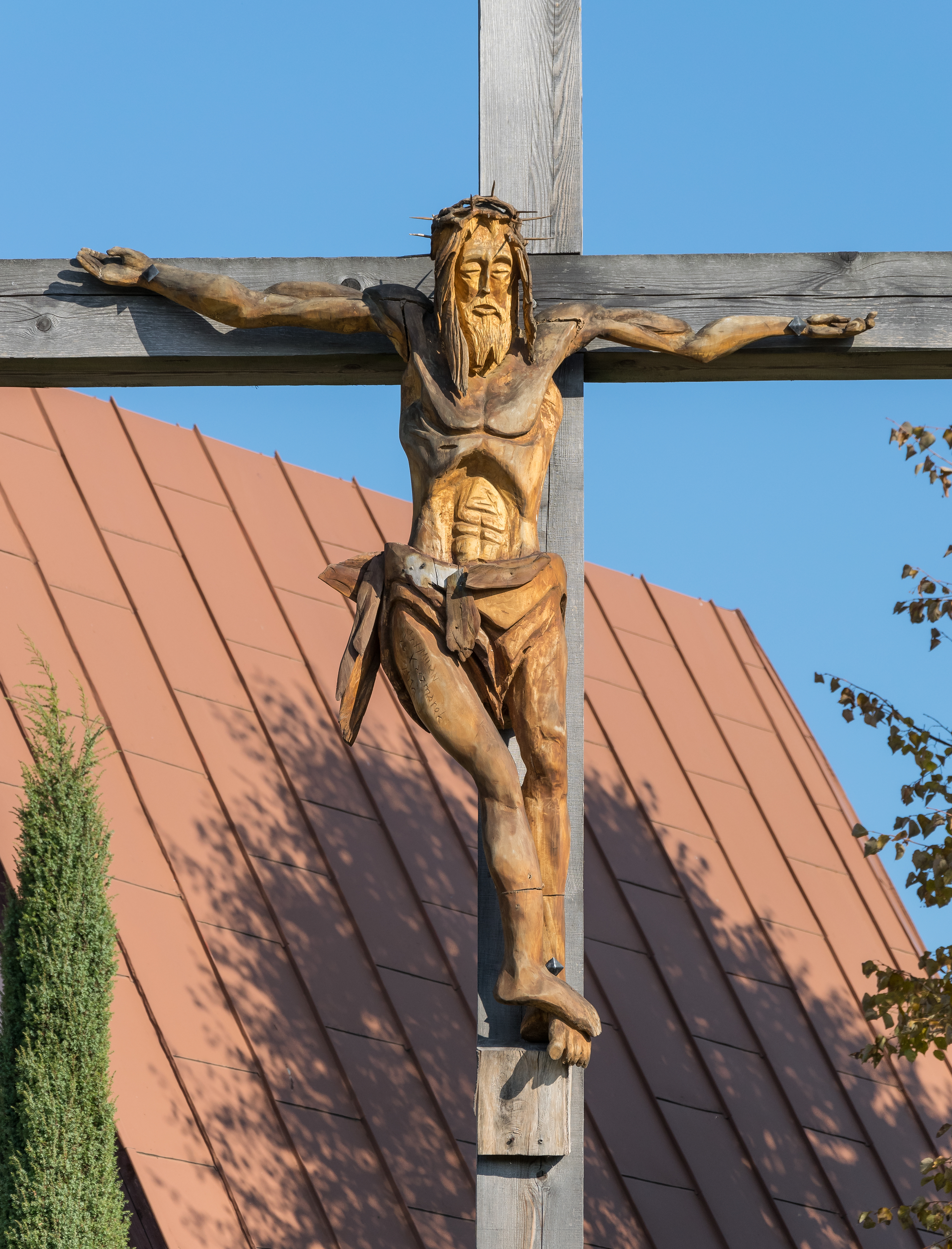 Exaltation of the Holy Cross church in Przygórze